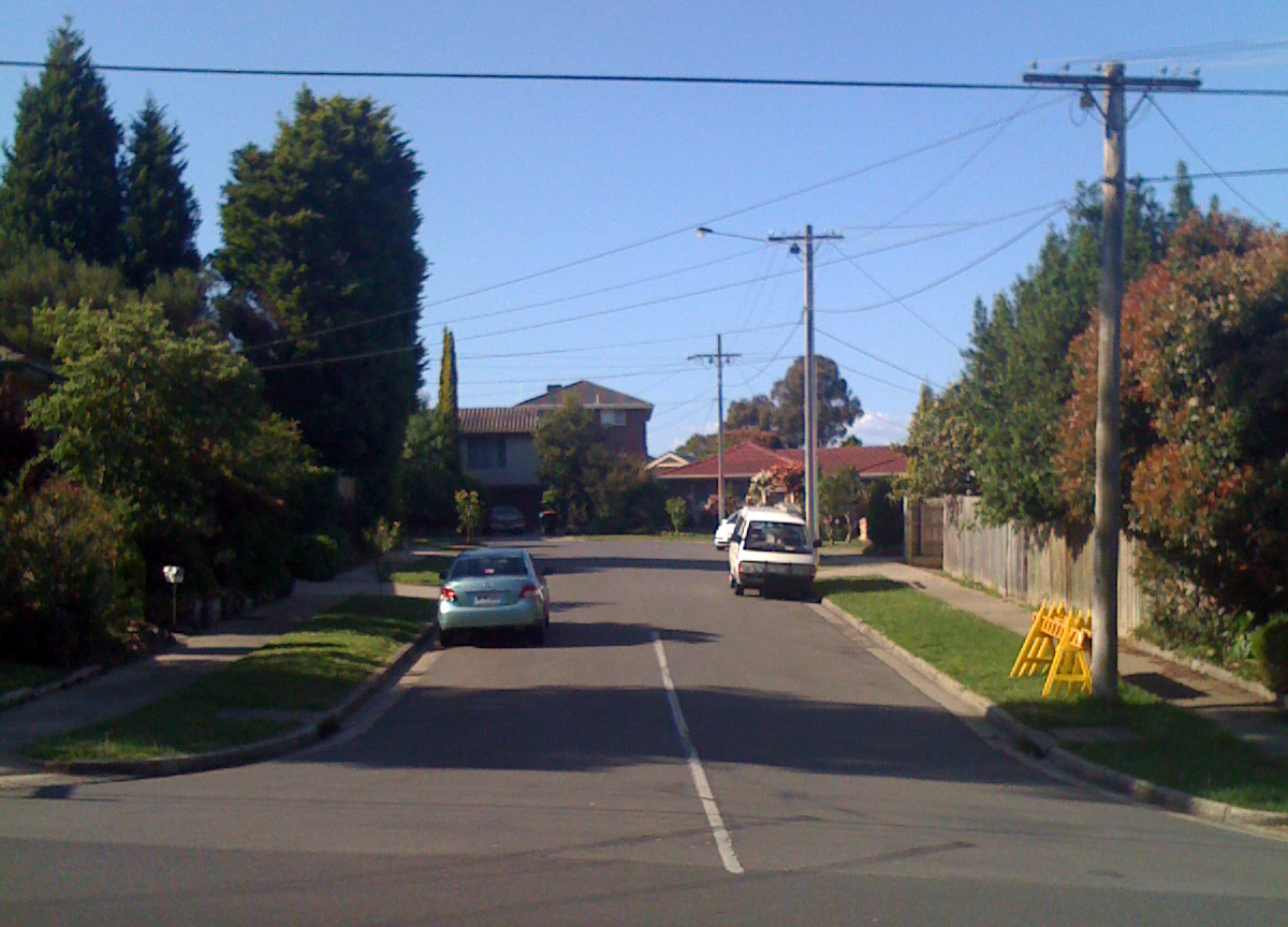 View of Pin Oak Court in Vermont South, Victoria, Australia. Also known as the fictional Ramsay Street on the soap opera Neighbours.